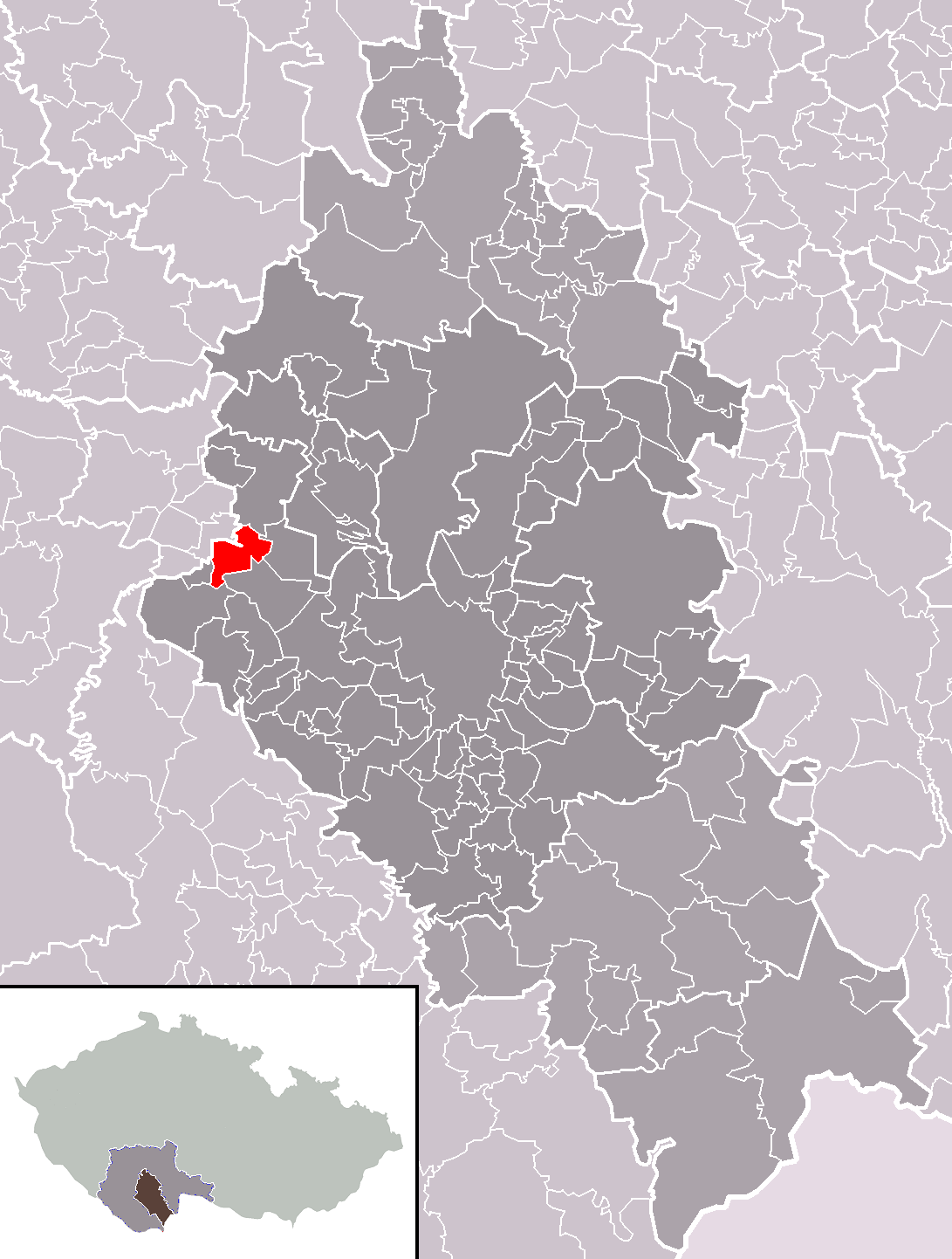 Location of Radošovice municipality within České Budějovice District and administrative area of České Budějovice as a Municipality with Extended Competence.